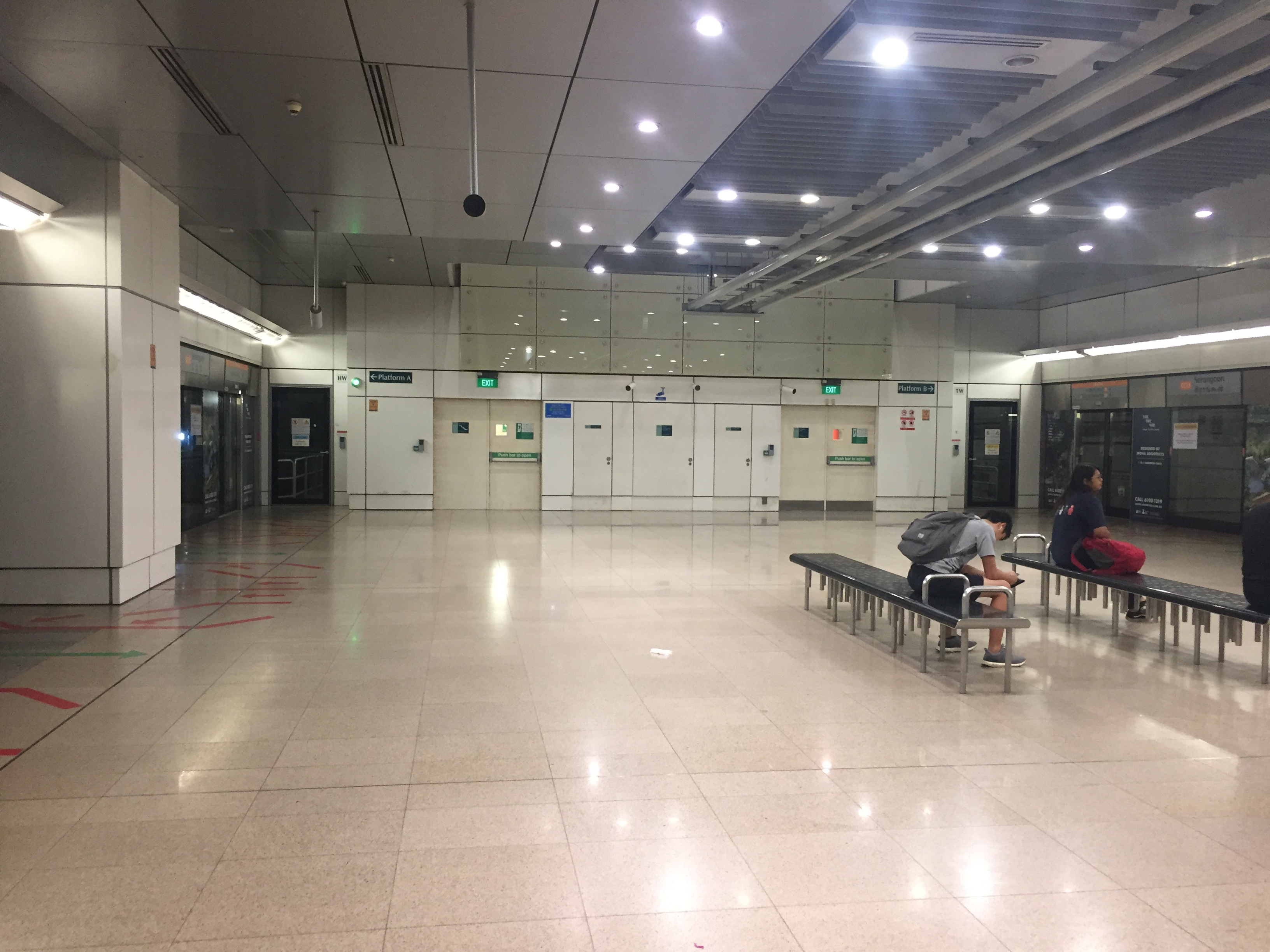 This is the CCL Platform 2